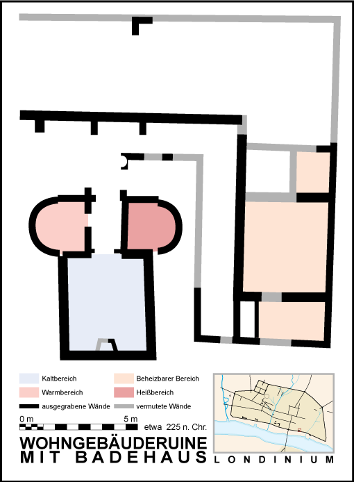 Plan of rests of a rich residential building with bath house in Londinium, today London Billingsgate, app. 225 AD